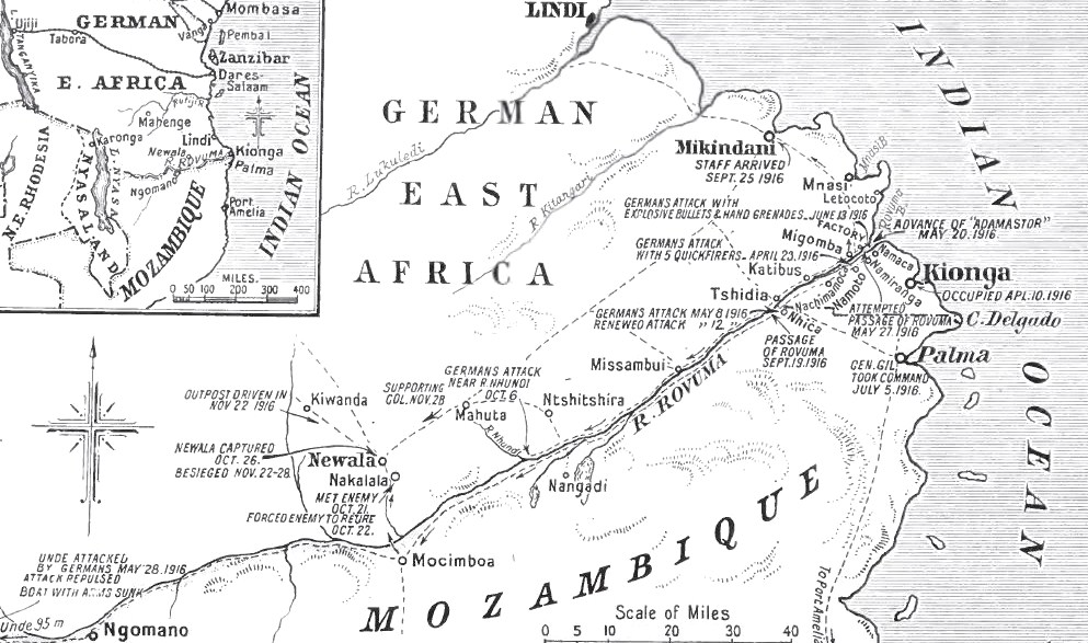 Map: Portuguese operations, East African campaign 1916